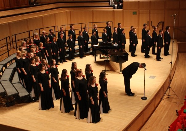 University of Utah Singers Christmas concert December 2008